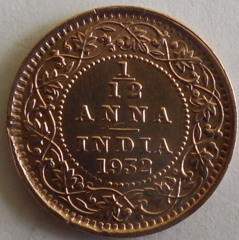 1/12 anna coin of British India, reverse. Coin from my personal collection